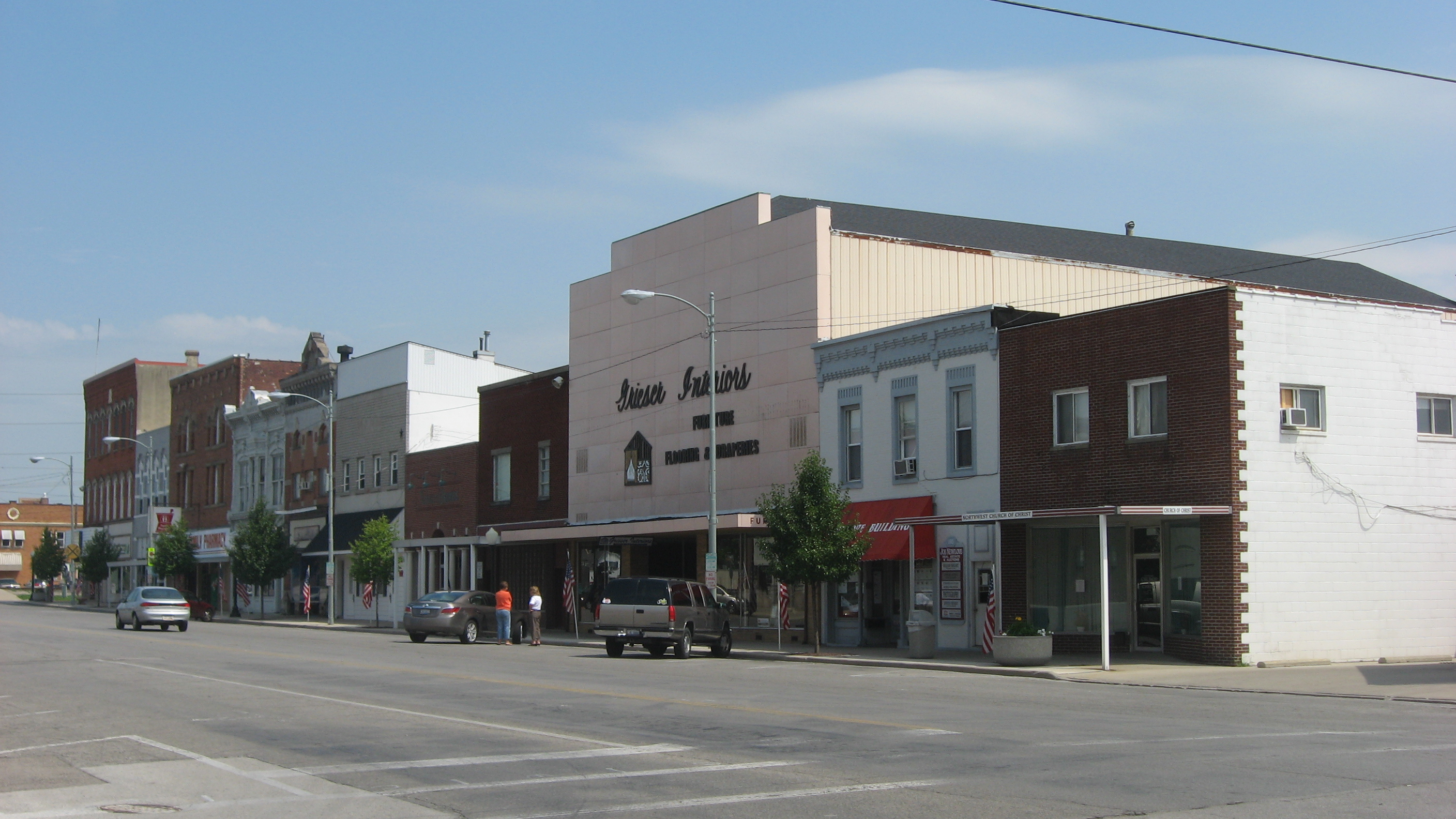 Buildings on the eastern side of the 100 block of South Fulton Street in downtown Wauseon, Ohio, United States.